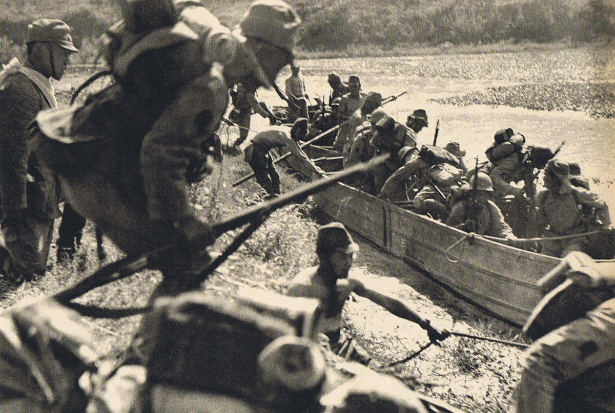 Battle of Zaoyang-Yichang: Soldiers of the IJA "Ikeda Detachment" at the south of Shayangzhen, Hubei Province, China, 6 June 1940. They crossed the Han River at the dawn of June 5, and they were now heading westward for Jīngzhōu and Shāshì. Nota bene: The scene is not the crossing of the Han River itself; it is probably a branch of it.